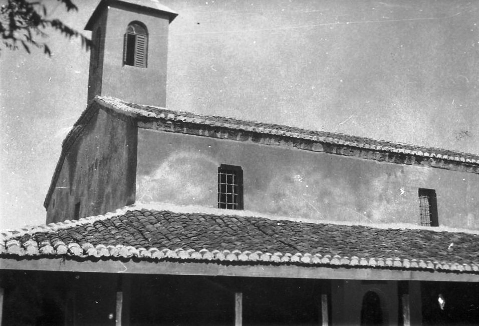 St. Demetrious Church in the village Kosturino, Macedonia, 1931 This media file is produced by Wikipedian in Residence in Category:Wikipedian in Residence at DARM in 2016.